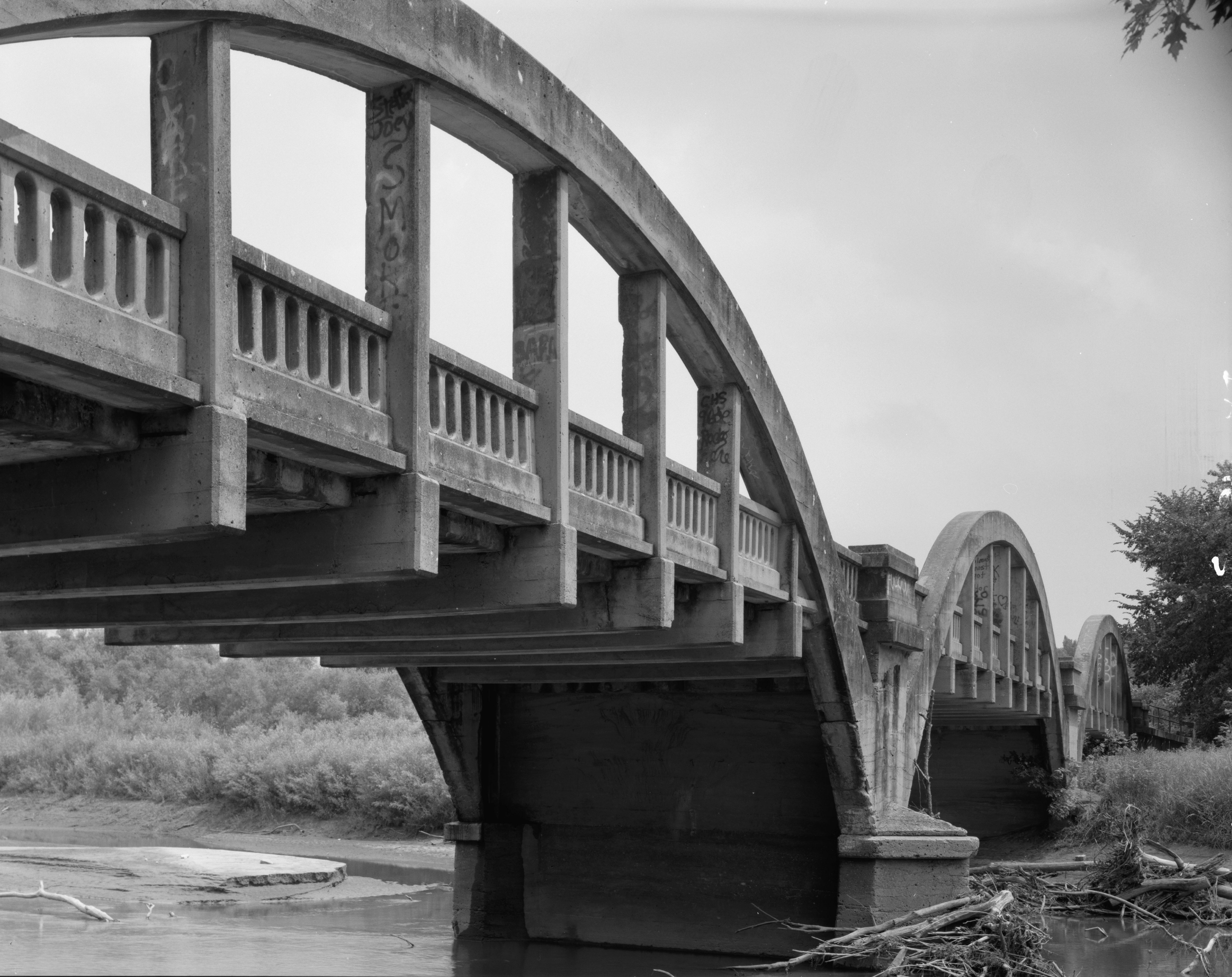 Lake City Bridge, Spanning North Raccoon River, Lake City vicinity, Calhoun County, IA. (3. 3/4 VIEW, CLOSE UP, FROM SOUTHWEST HAER IOWA,13-LACIT.V,1-3)